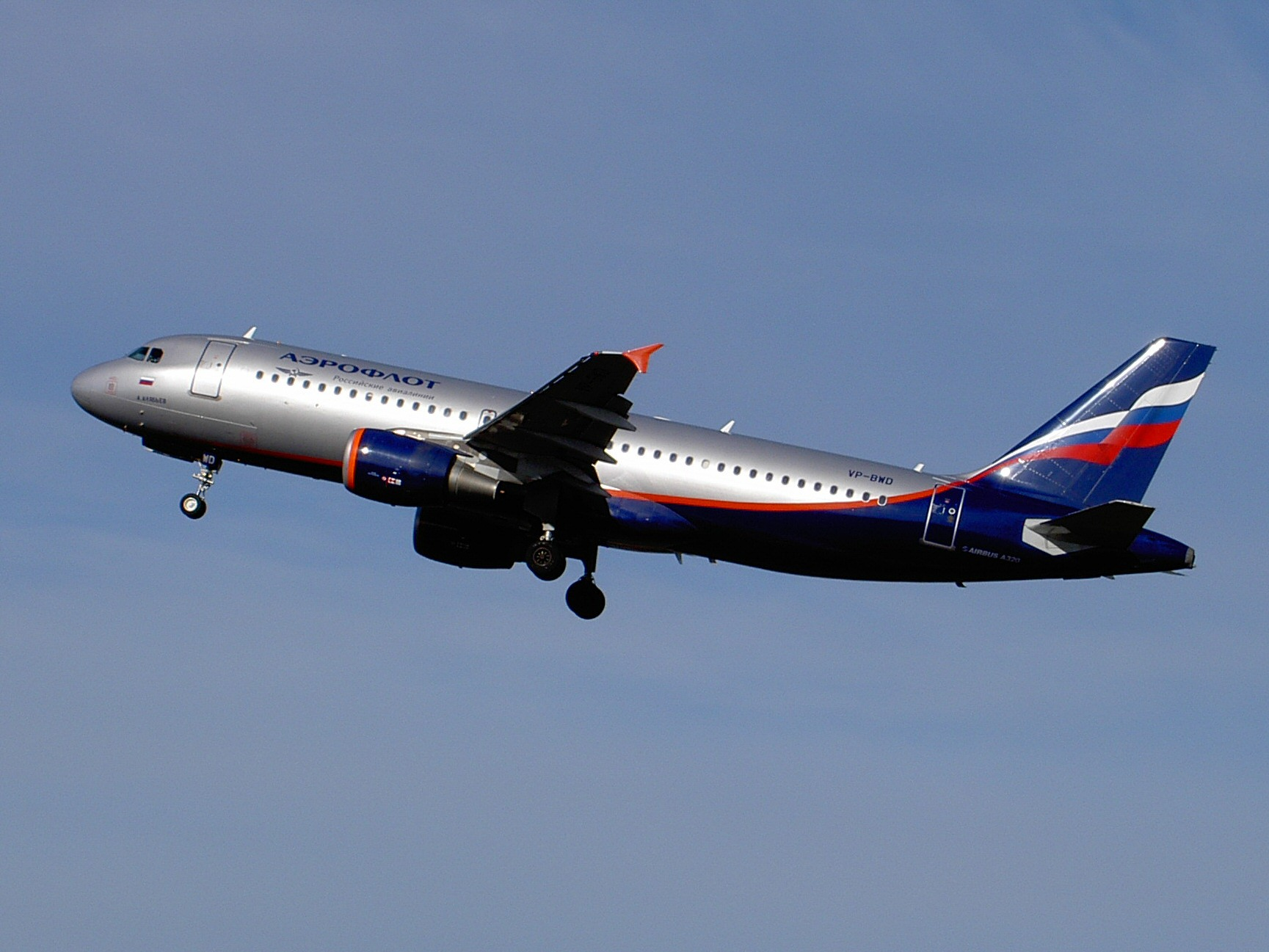 VP-BWD A320 Aeroflot Russian Airlines. Airbus A.320-214 c/n 2116